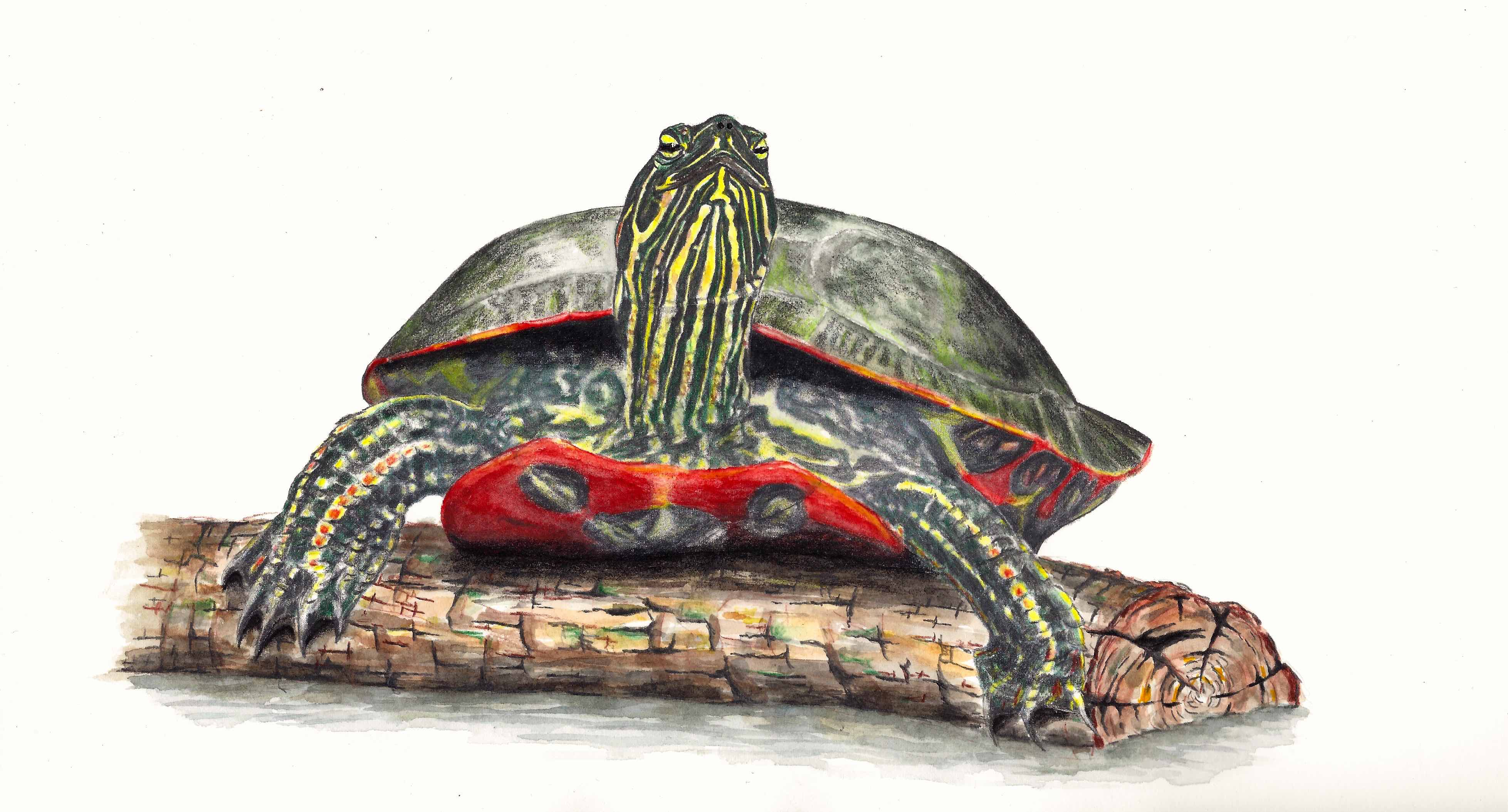 Western painted turtle (Chrysemys picta bellii)